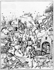 Looting knights